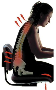 Bad posture